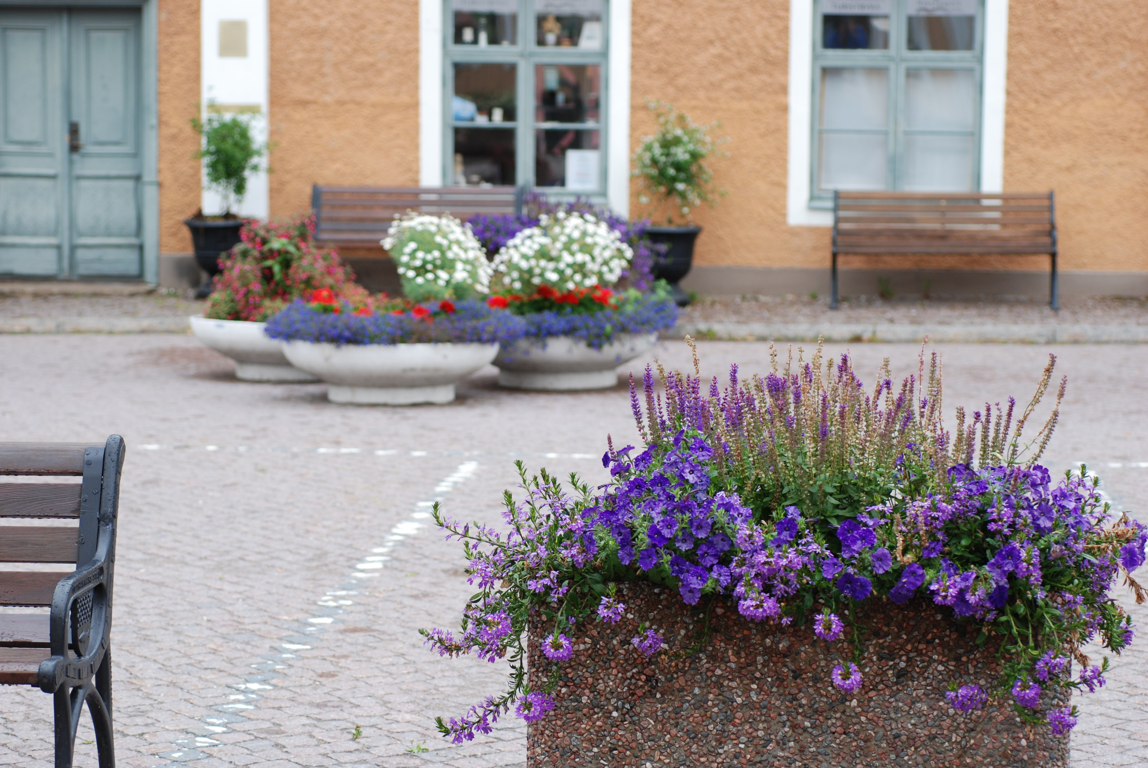 In the main town square in Östhammar, Sweden.